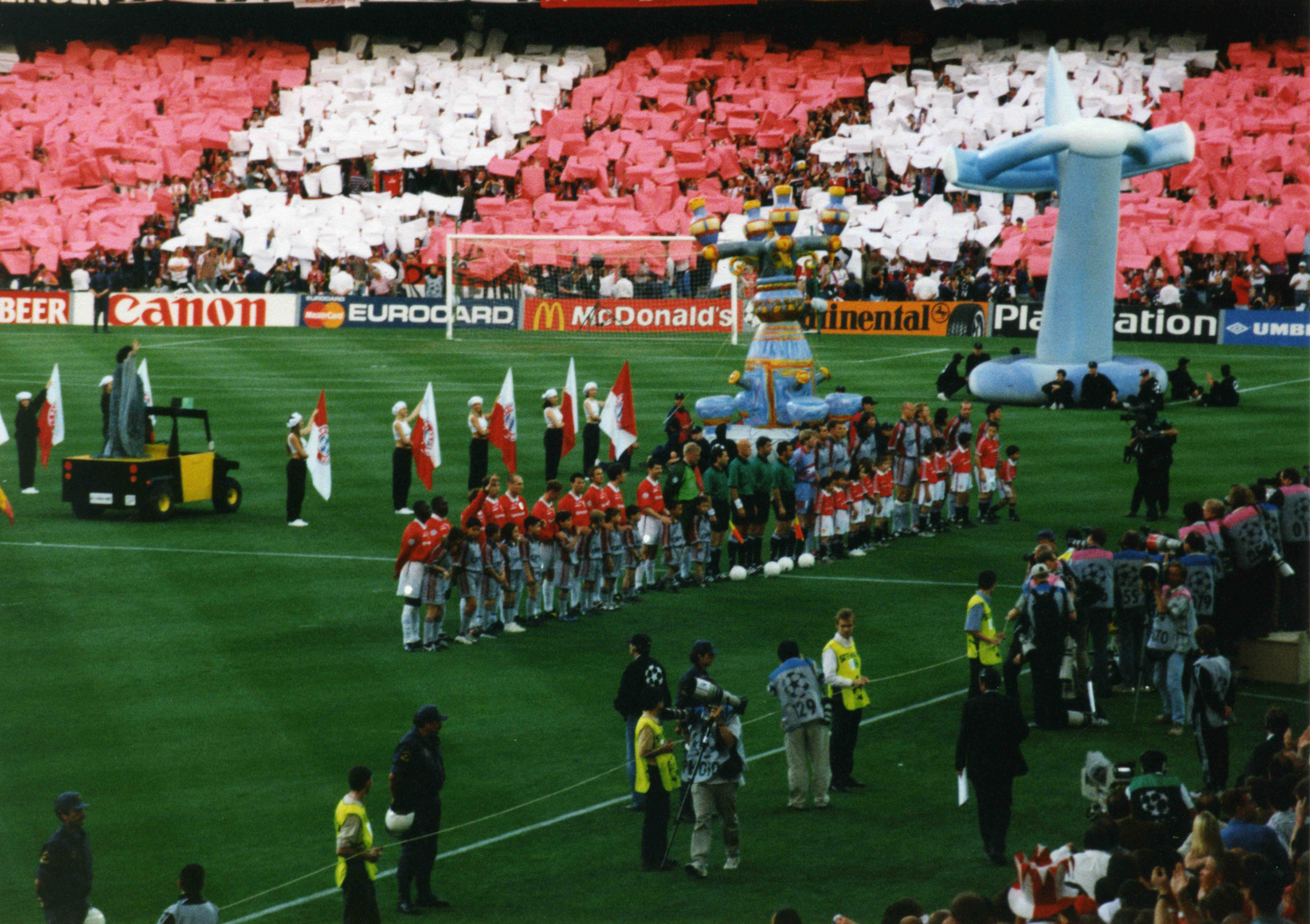 The Manchester United and Bayern Munich teams line up ahead of the 1999 UEFA Champions League Final at the Camp Nou, Barcelona, on 26 May 1999